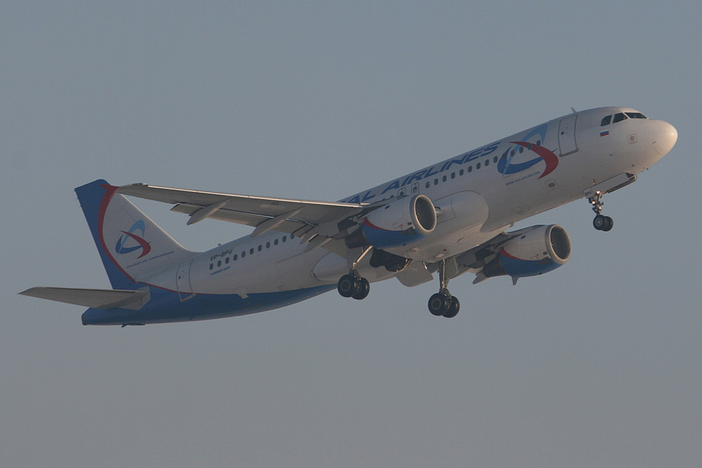 Ural Airlines Airbus A320-200 VP-BPU